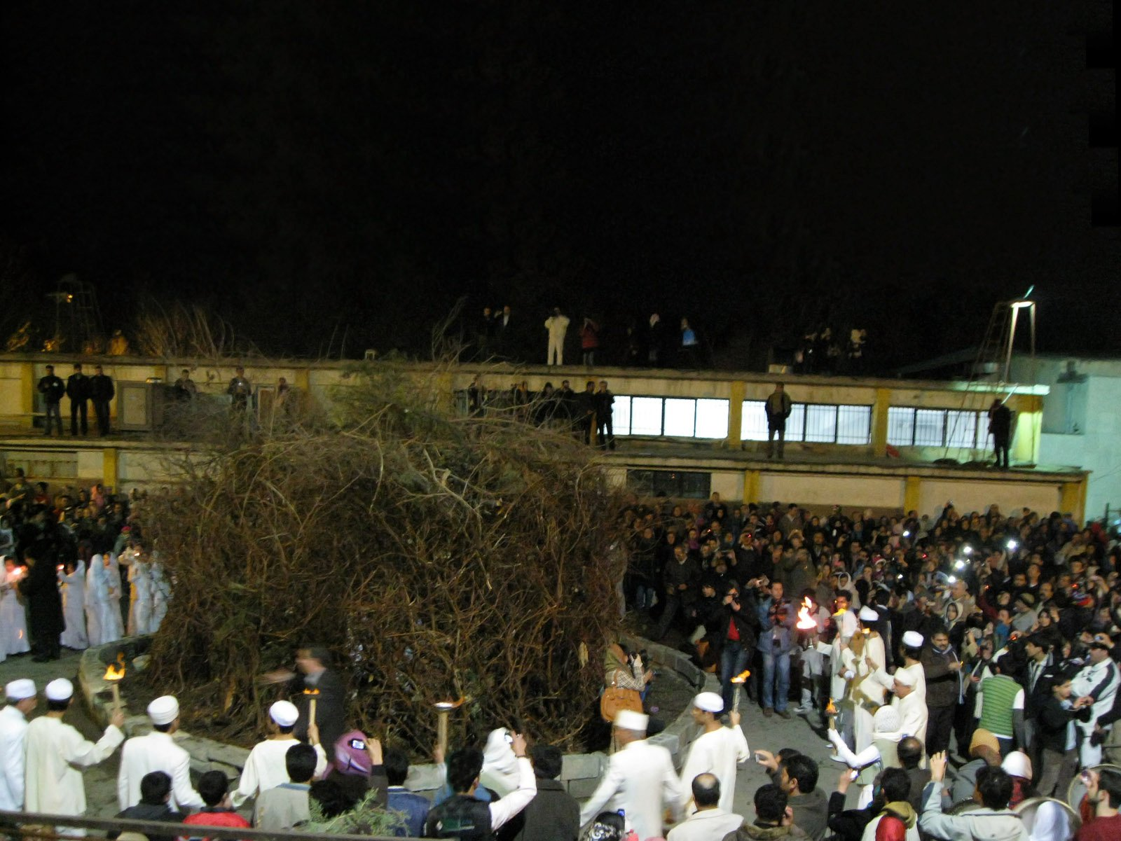 Sadeh in Markar (Tehran)